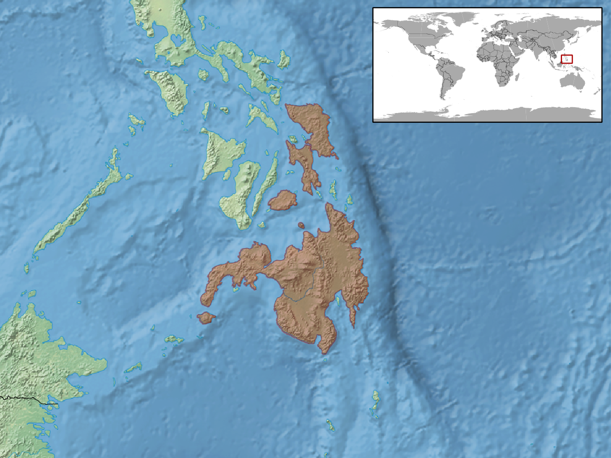 geographic distribution of Sphenomorphus fasciatus